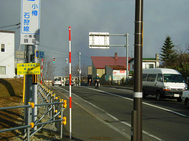 Starting point of the Hokkaido Prefectural Road Route 225 (Otaru-Ishikari Line) in Zenibako, Otaru City